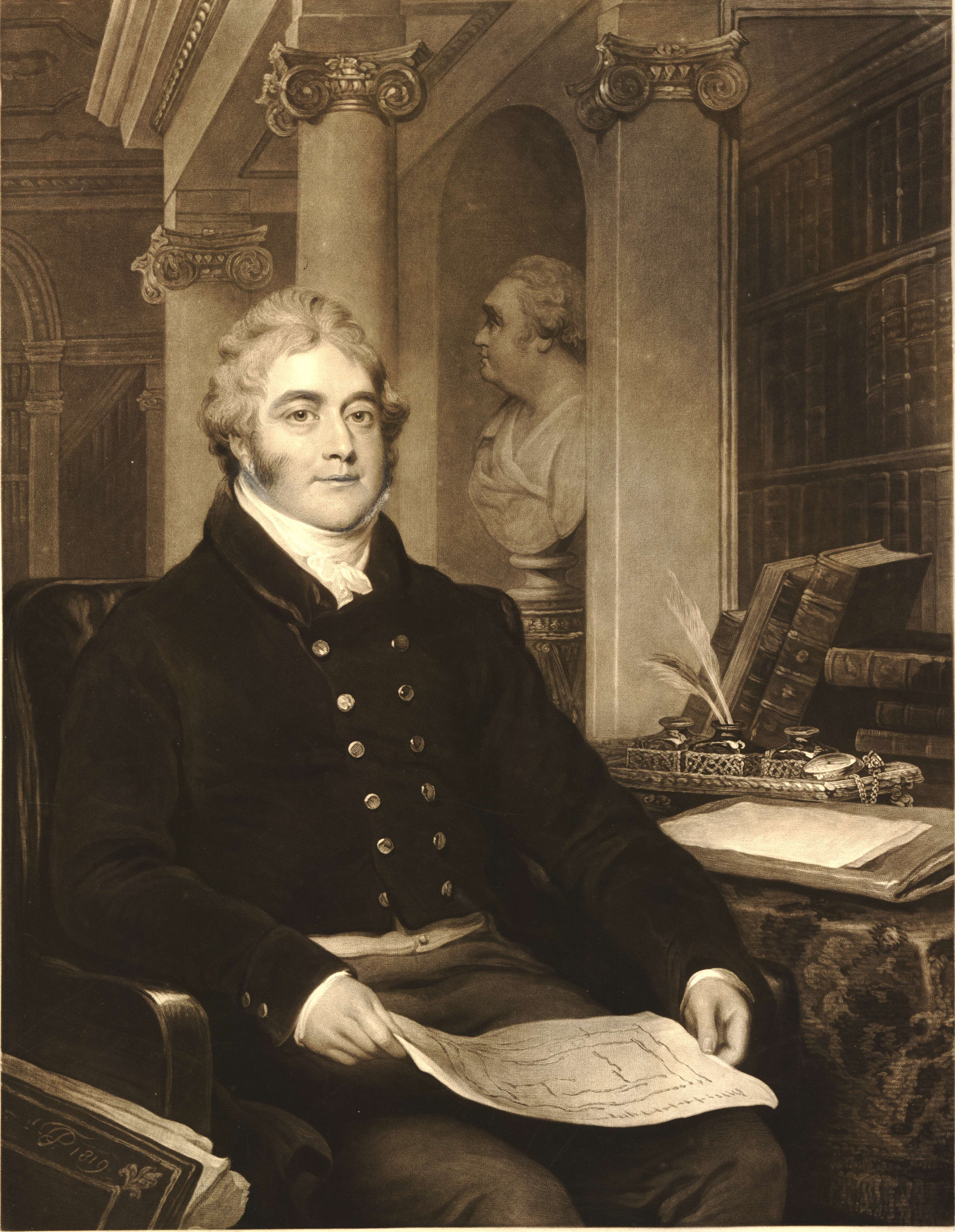 "Thomas Viscount Anson", portrait of Thomas Anson, 2nd Viscount Anson, by the British printmaker and publisher Charles Turner.